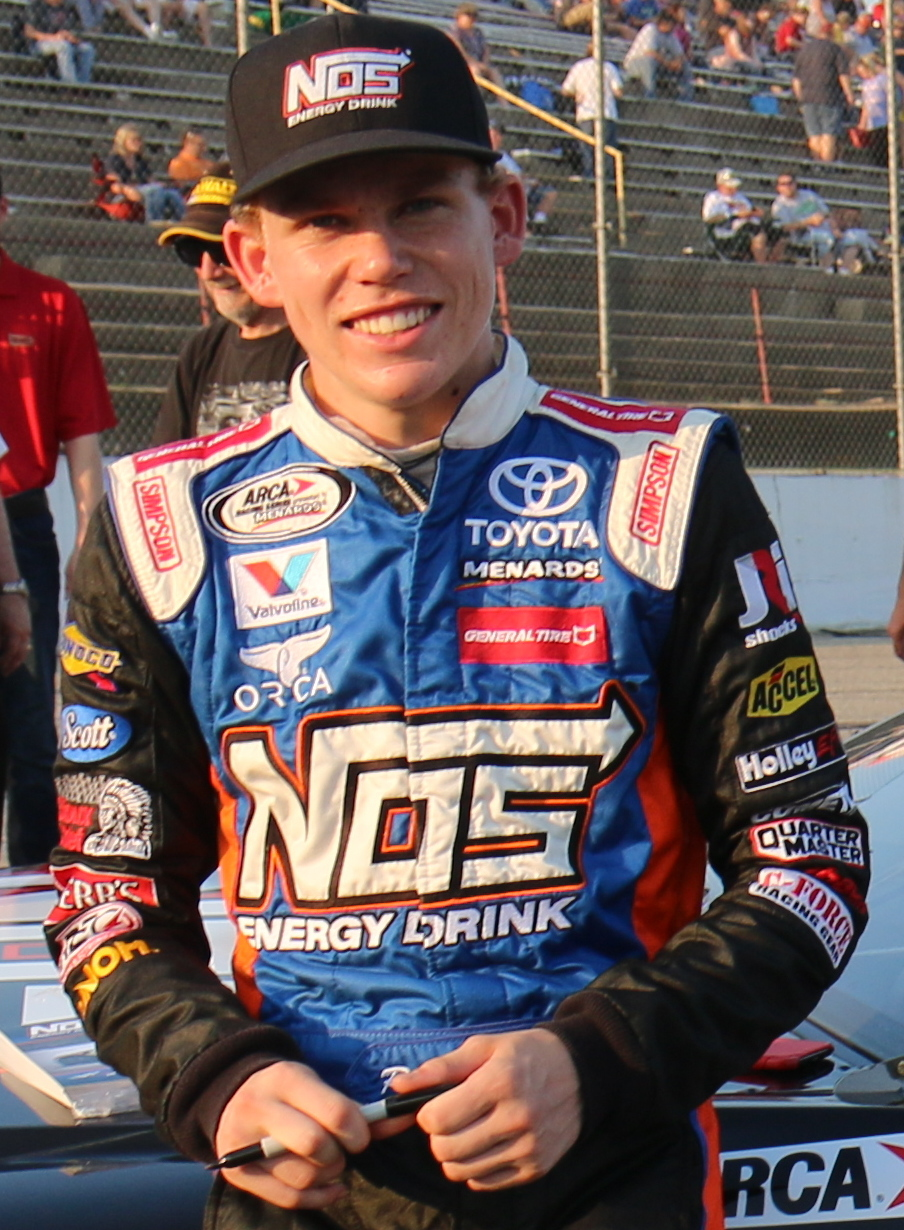 ARCA driver Riley Herbst posing for a photograph at Madison International Speedway. He made his first NASCAR Xfinity series start 2 days later.